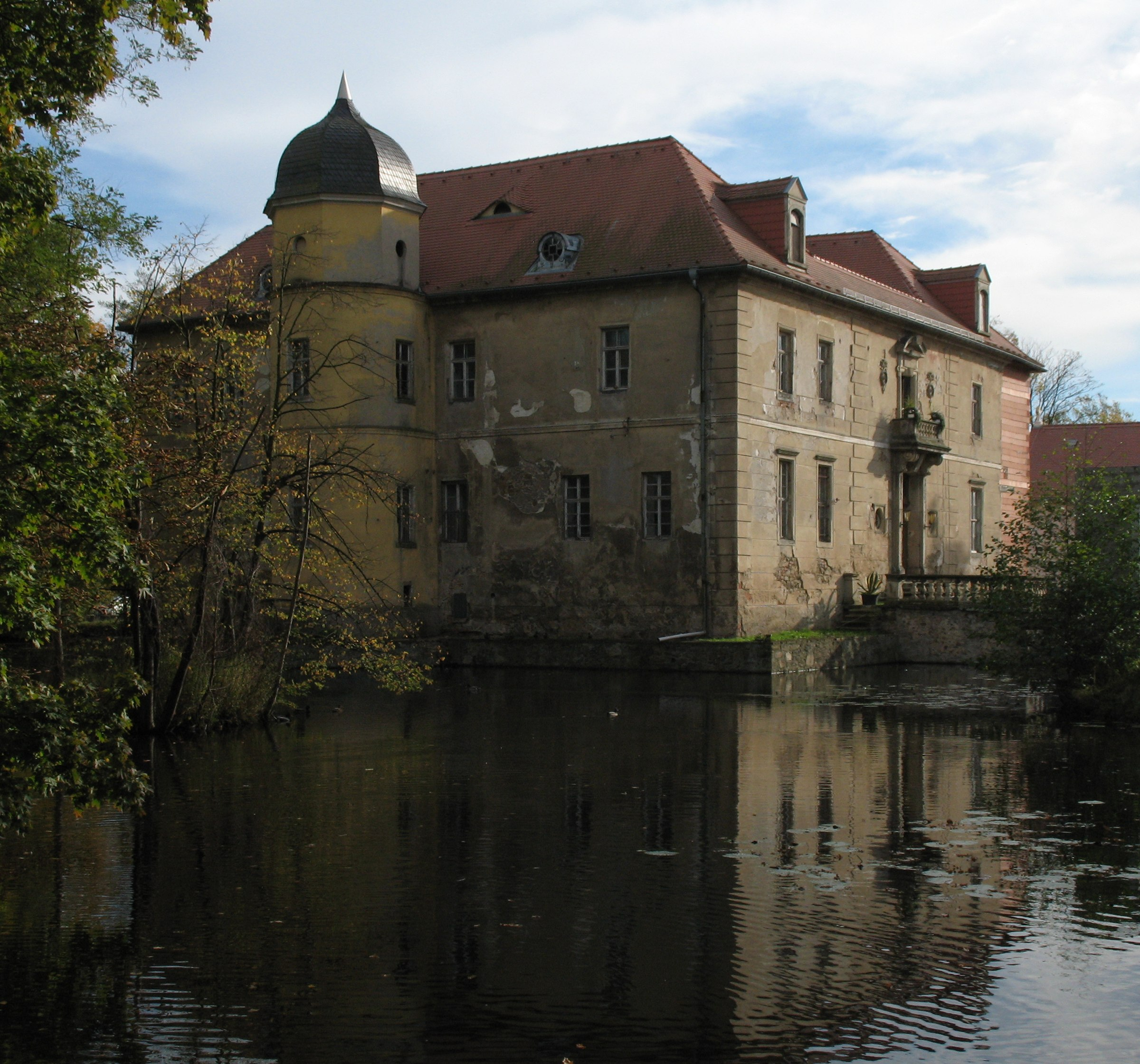 Water castle in Radeburg-Berbisdorf in Saxony, Germany